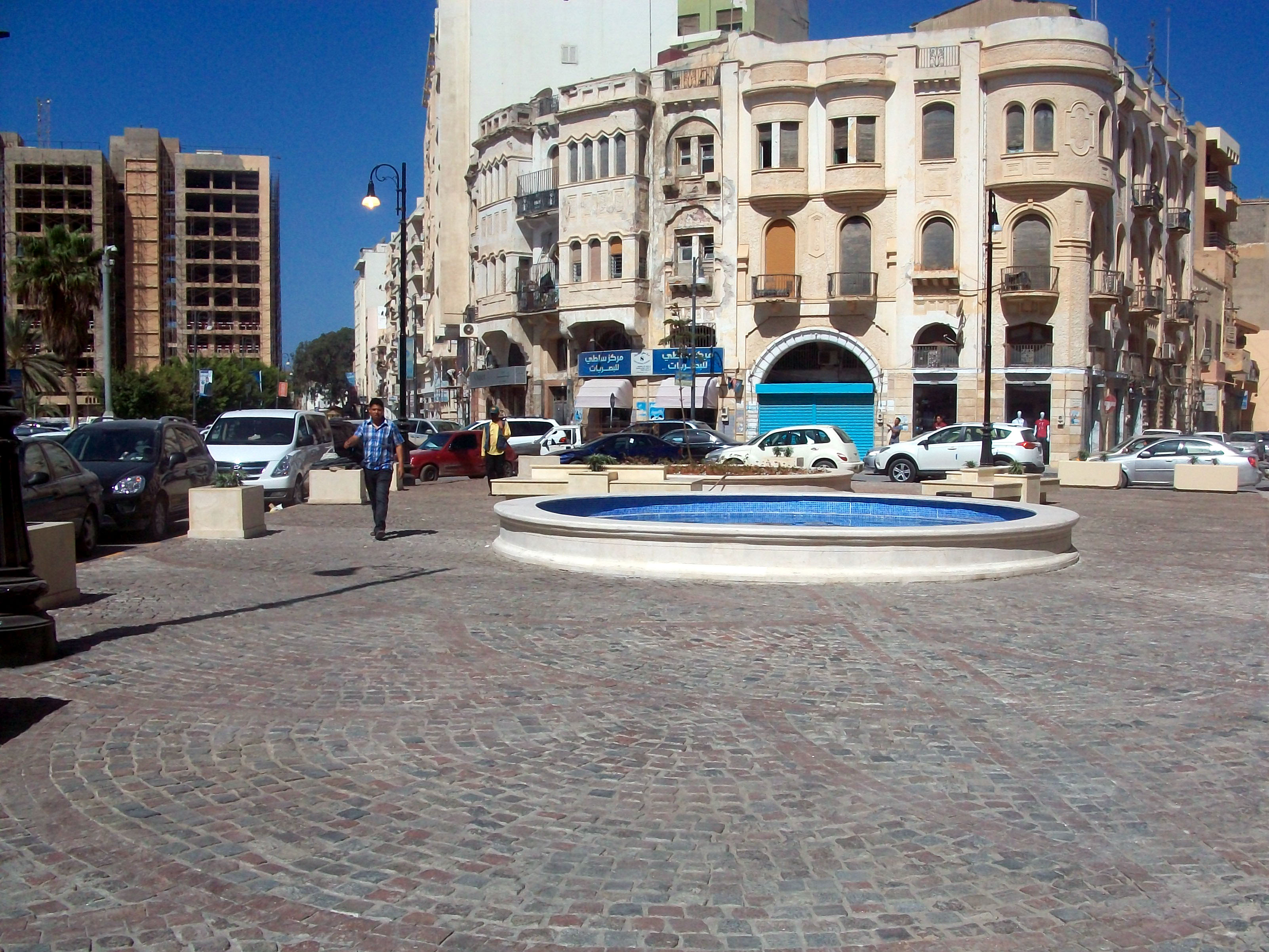 Maydan al-Shajara (Shajara Square) in Central Benghazi.